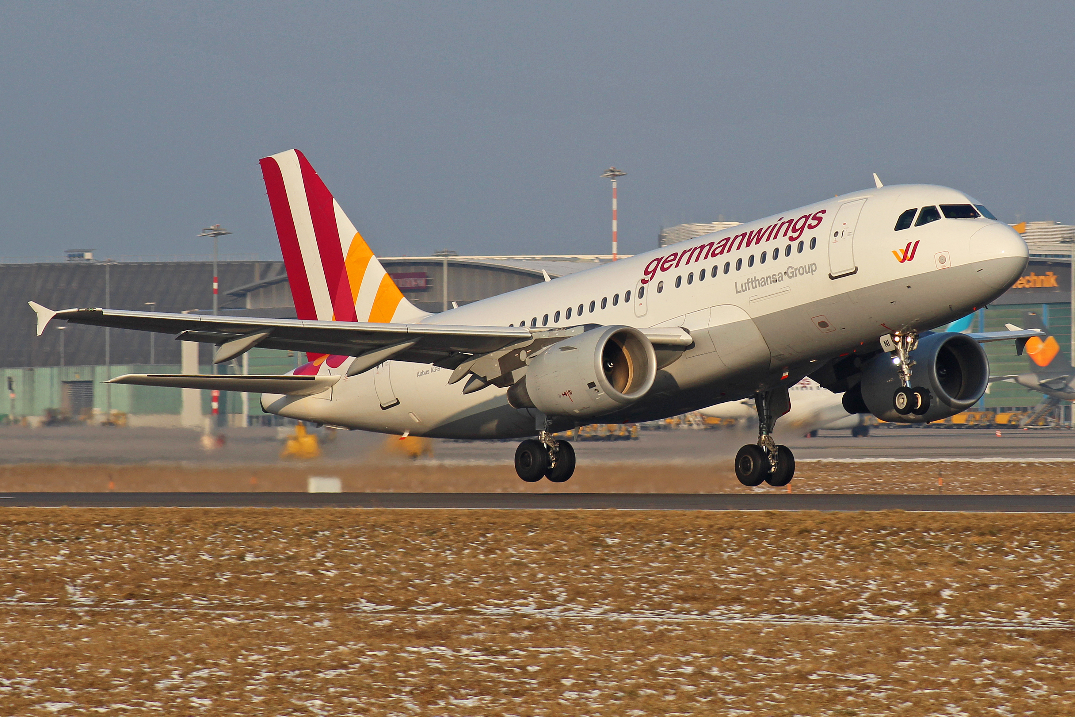 Germanwings Airbus A319 during takeoff at Stuttgart airport.